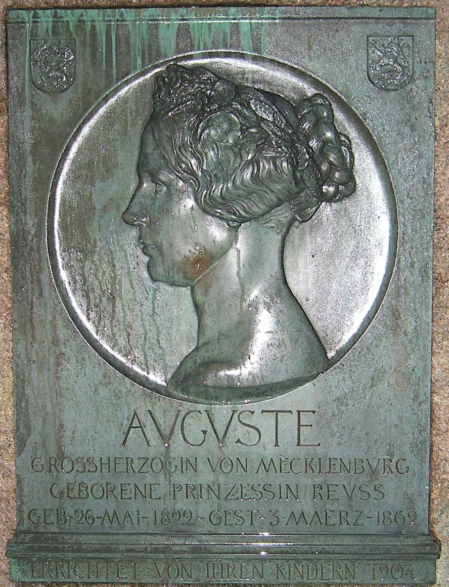 Memorial (plaque) Auguste Reuß zu Köstritz, first wife of Friedrich Franz II, Grand Duke of Mecklenburg-Schwerin, sculpted by Wilhelm Wandschneider